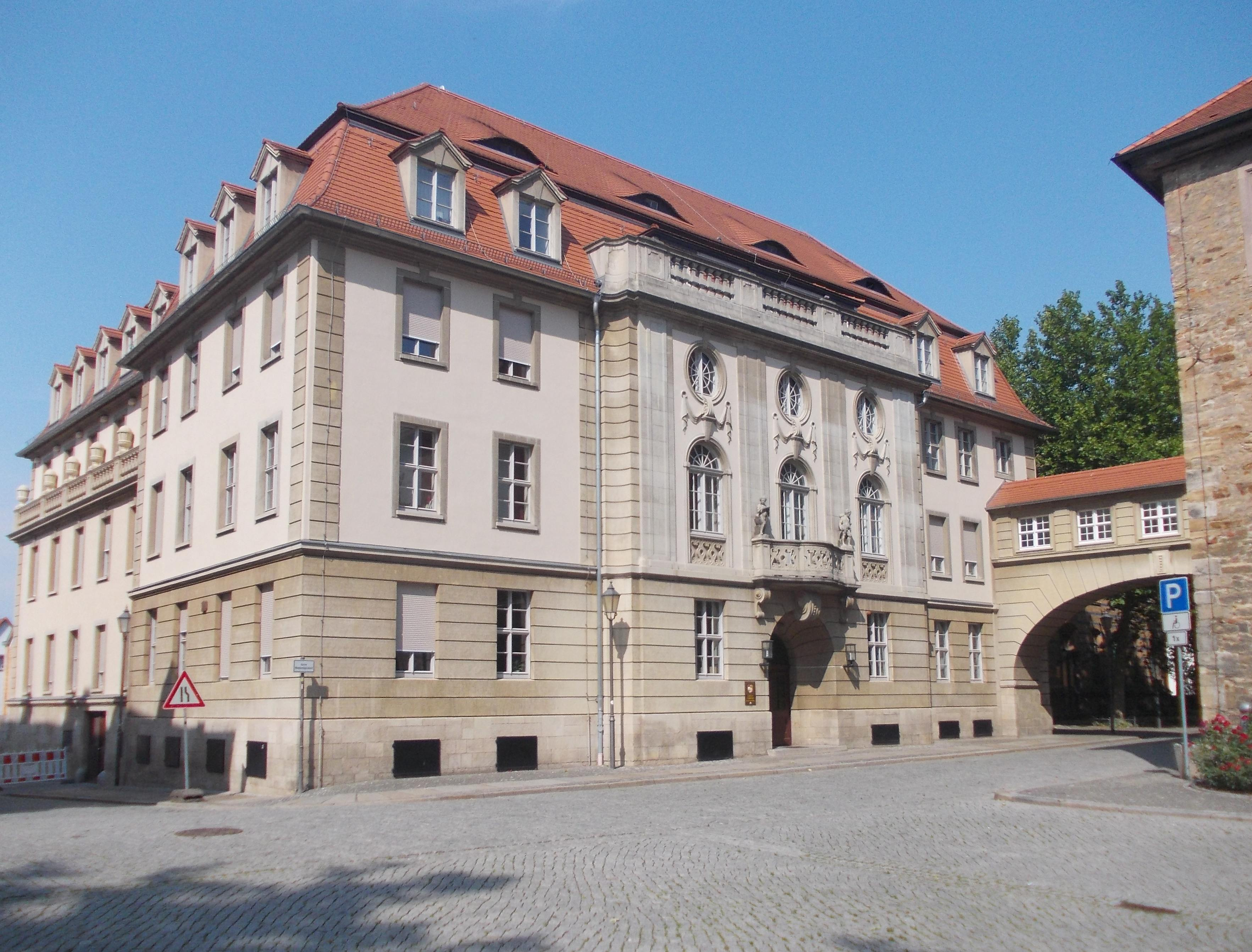 No. 2, Domplatz in Merseburg (district: Saalekreis, Saxony-Anhalt)